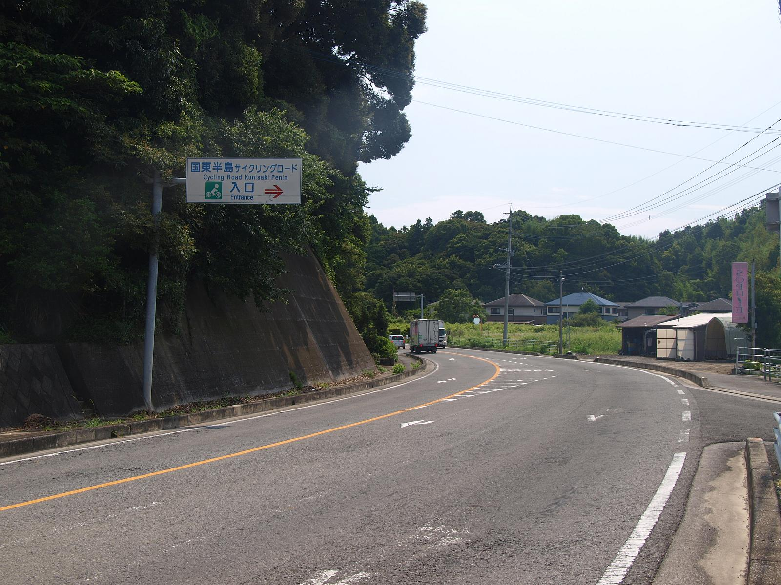 Oita Prefectural Road 413